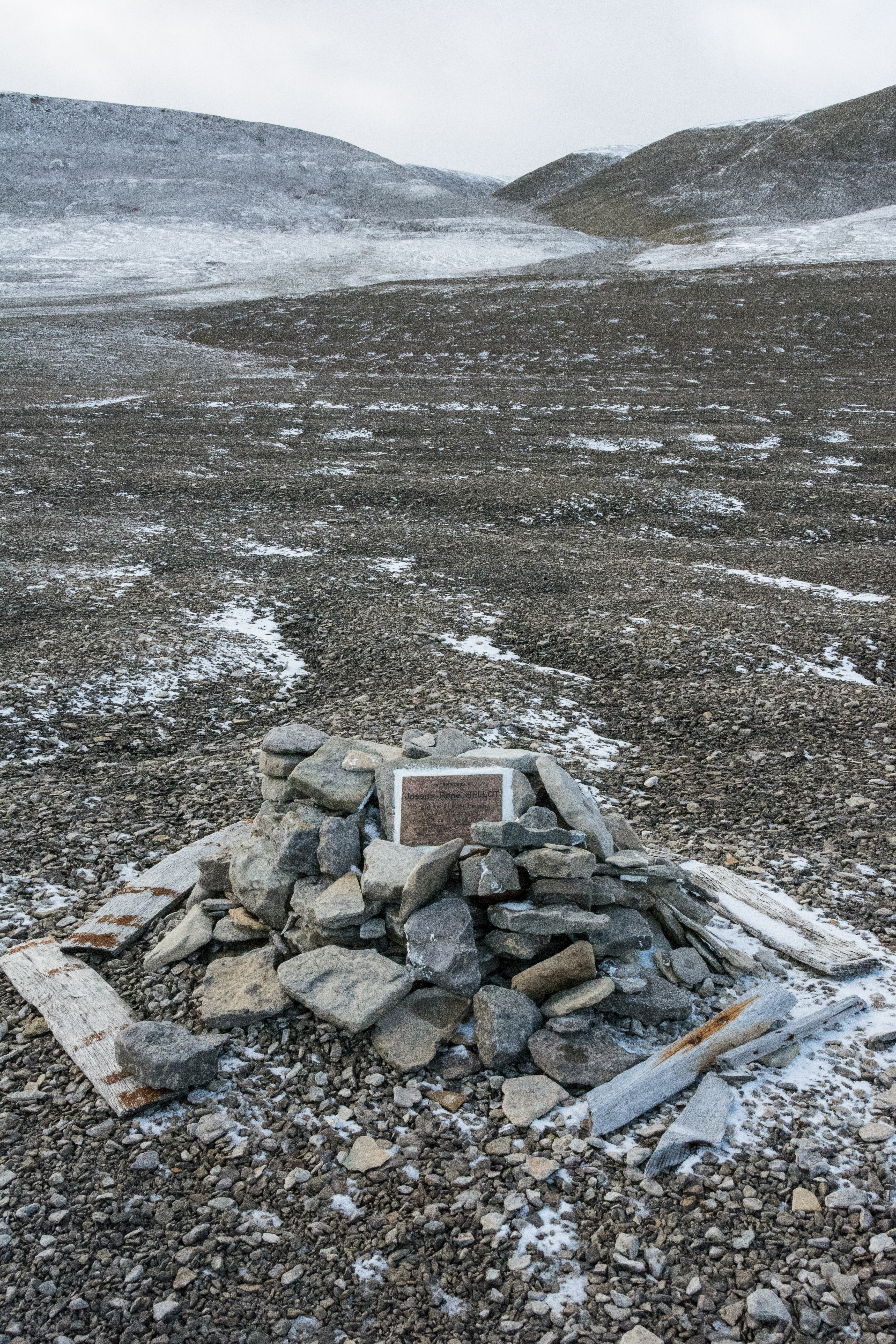 Cairn for Joseph-René Bellot erected on Beechey Island by Nadine and Jean-Claude Forestier-Blazart in August, 2012. Joseph René Bellot (March 18, 1826 – August 18, 1853) was a French Arctic explorer who died in an accident while taking part in an Franklin search expedition in the Canadian High Arctic.